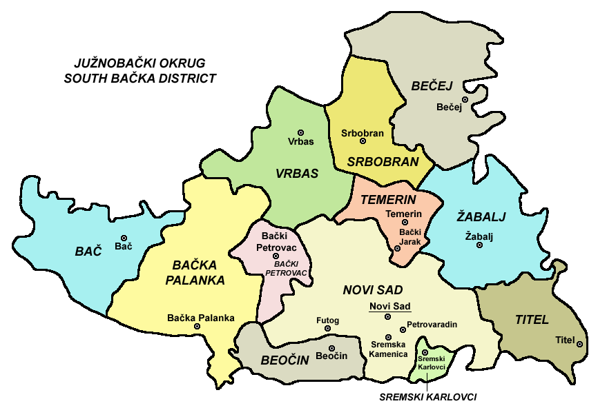 Map of South Bačka District.